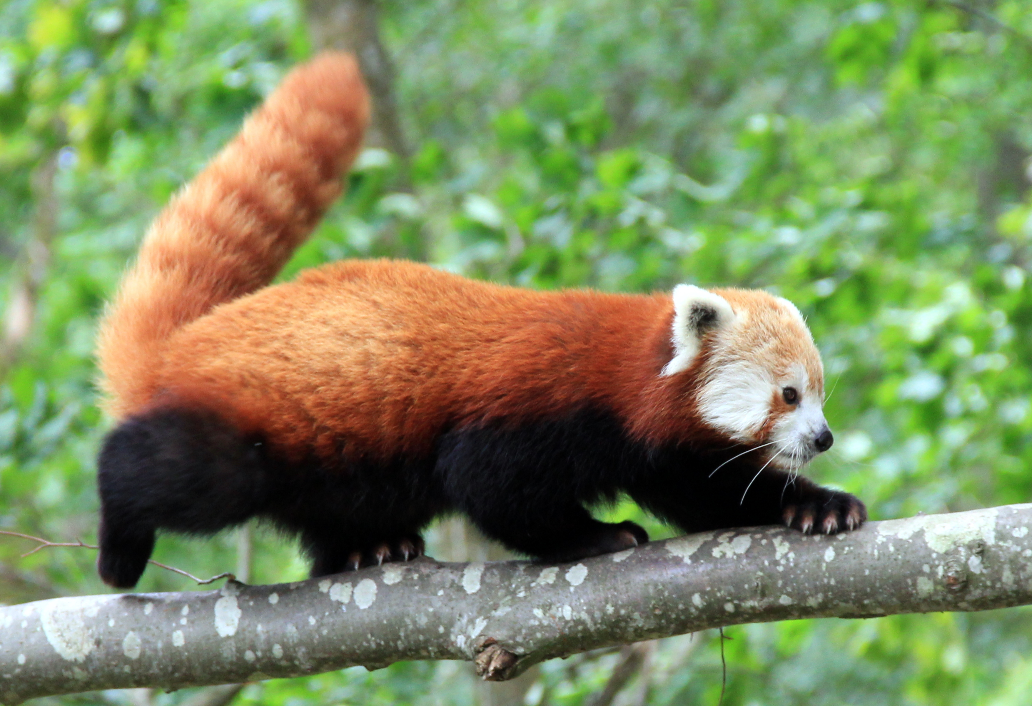 Ailurus fulgens, at Nordens Ark